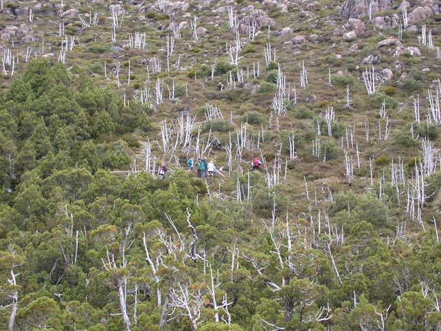 Transects of fire boundary above Backhouse Tarn